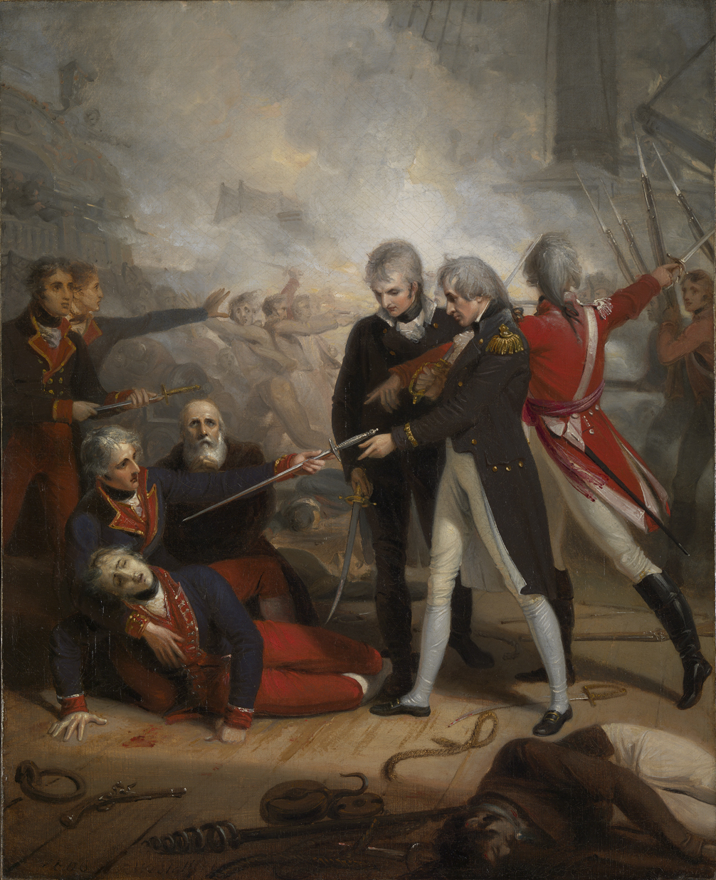 Nelson receives the surrender of the San Nicholas, portrait by Richard Westall at the Battle of Cape St Vincent BHC2909